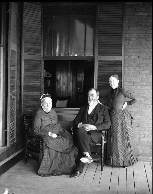 Spencer Fullerton Baird (1823-1887), second Secretary (1878-1887) of the Smithsonian with his wife, Mary (left), and daughter, Lucy (right), on the porch of their house in Woods Hole, Massachusetts, where Baird established the United States Fish Commission Station in 1875. 1887